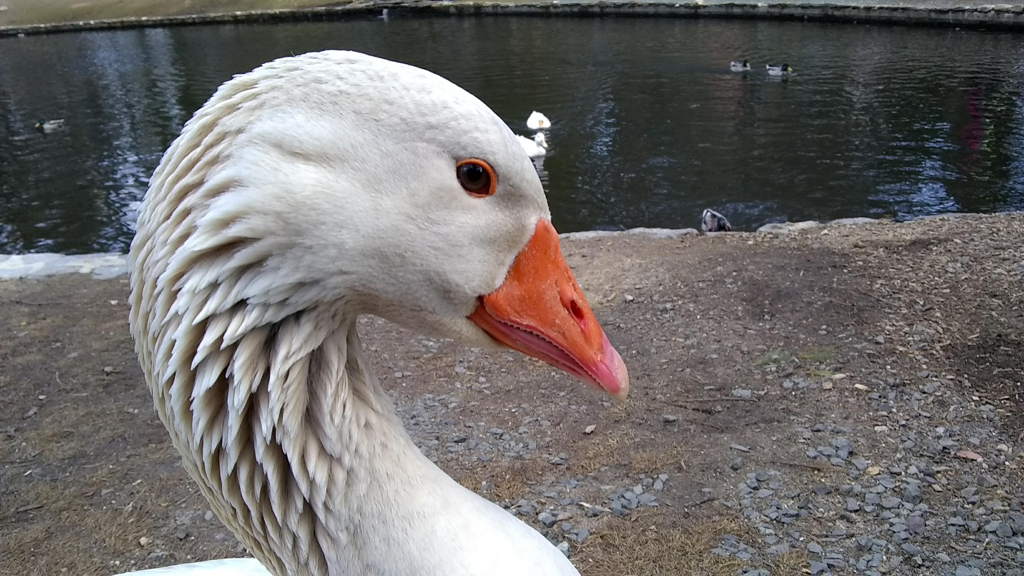 This is a picture of one of the geese who lives at the pond